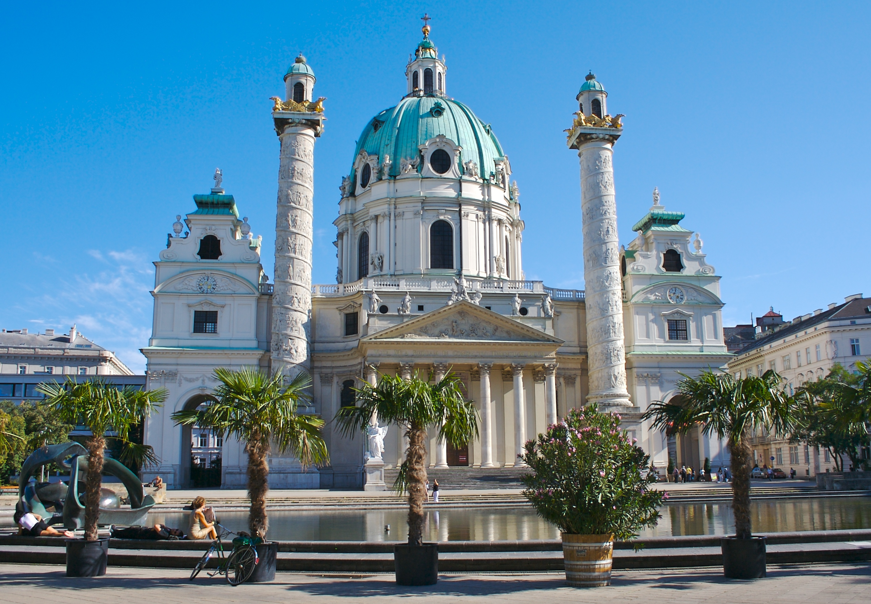 Austria, Vienna, St. Charles's Church